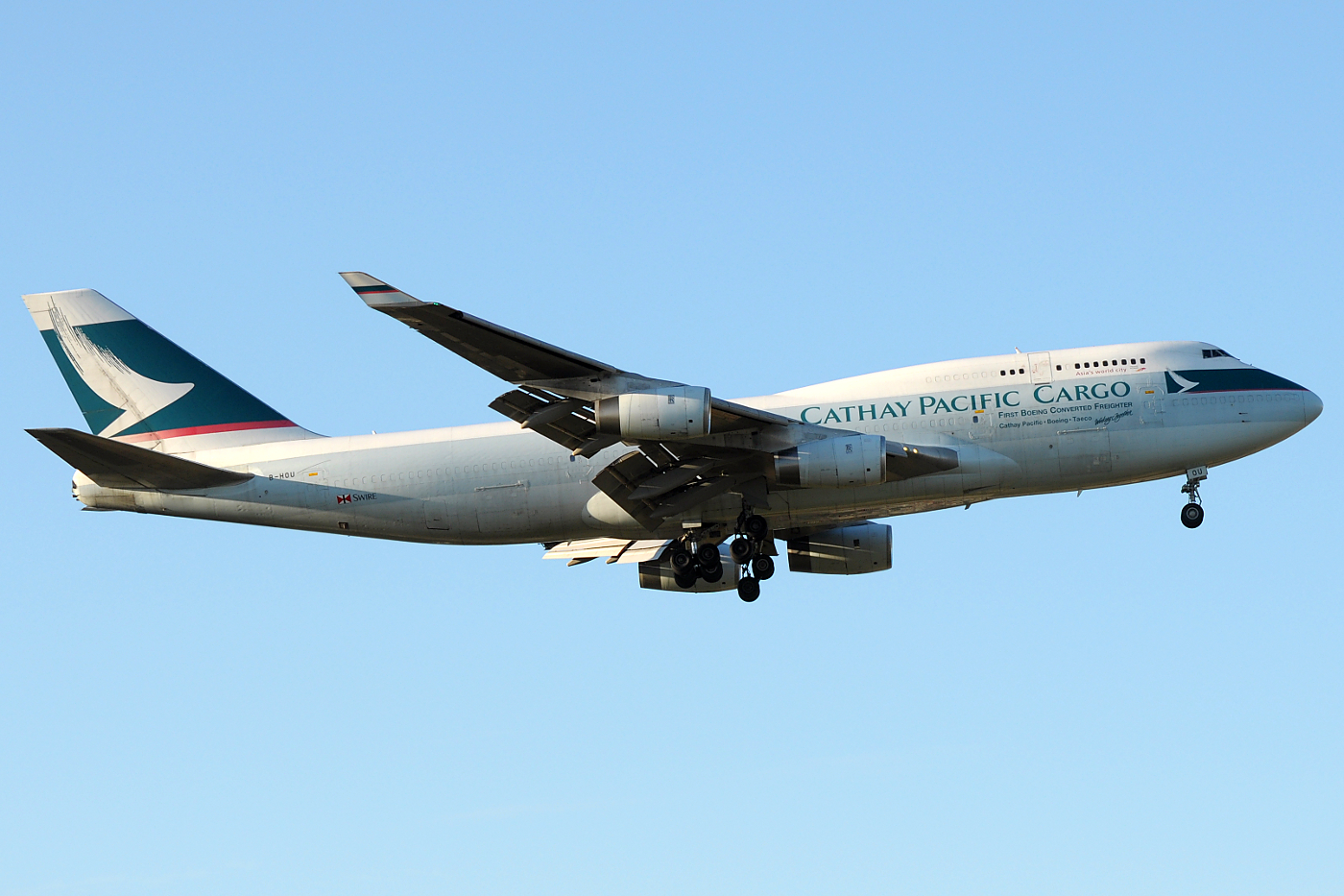 B-HOU, the first Boeing Converted Freighter, landing in Frankfurt